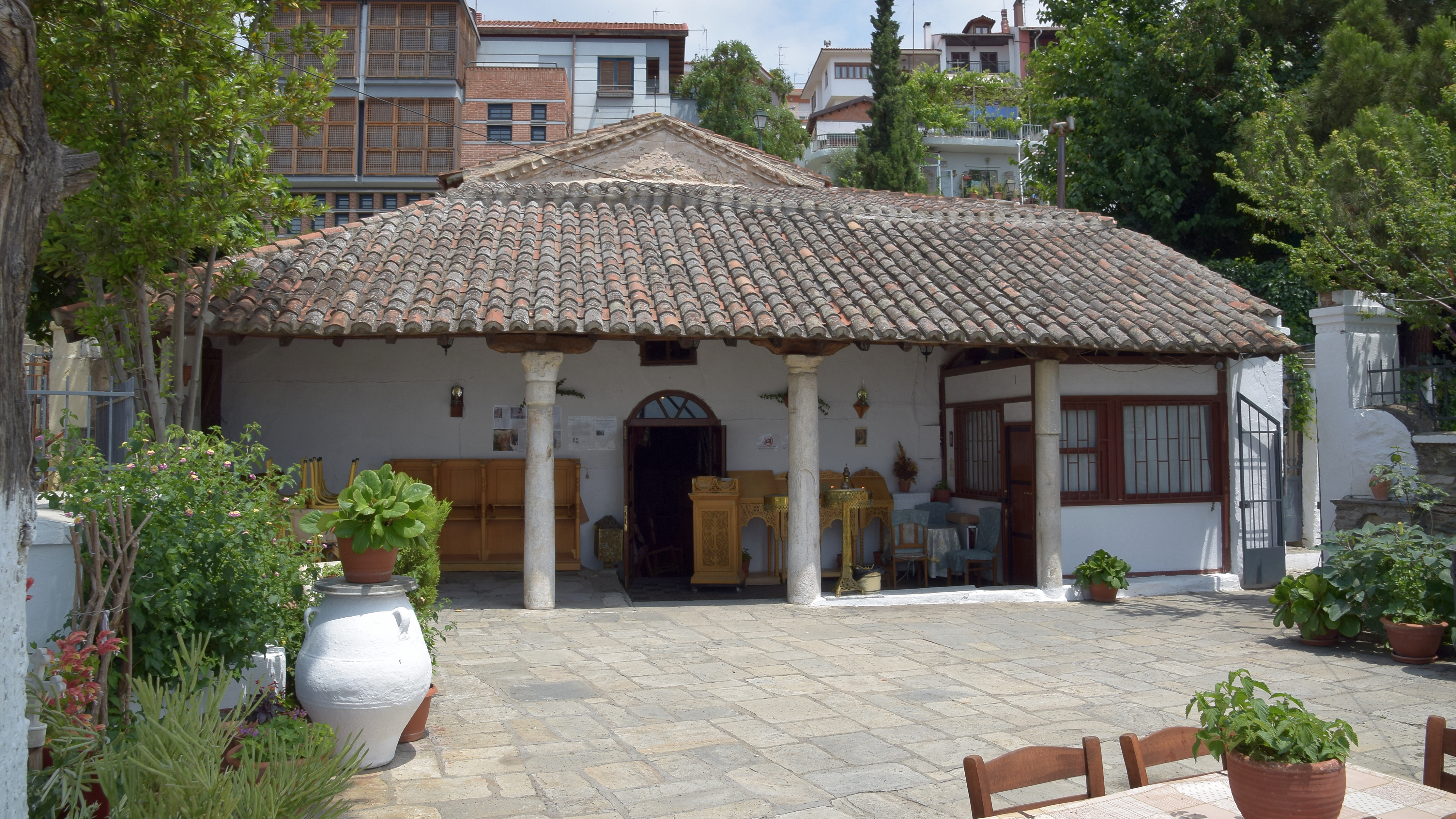 Latomou Monastery View